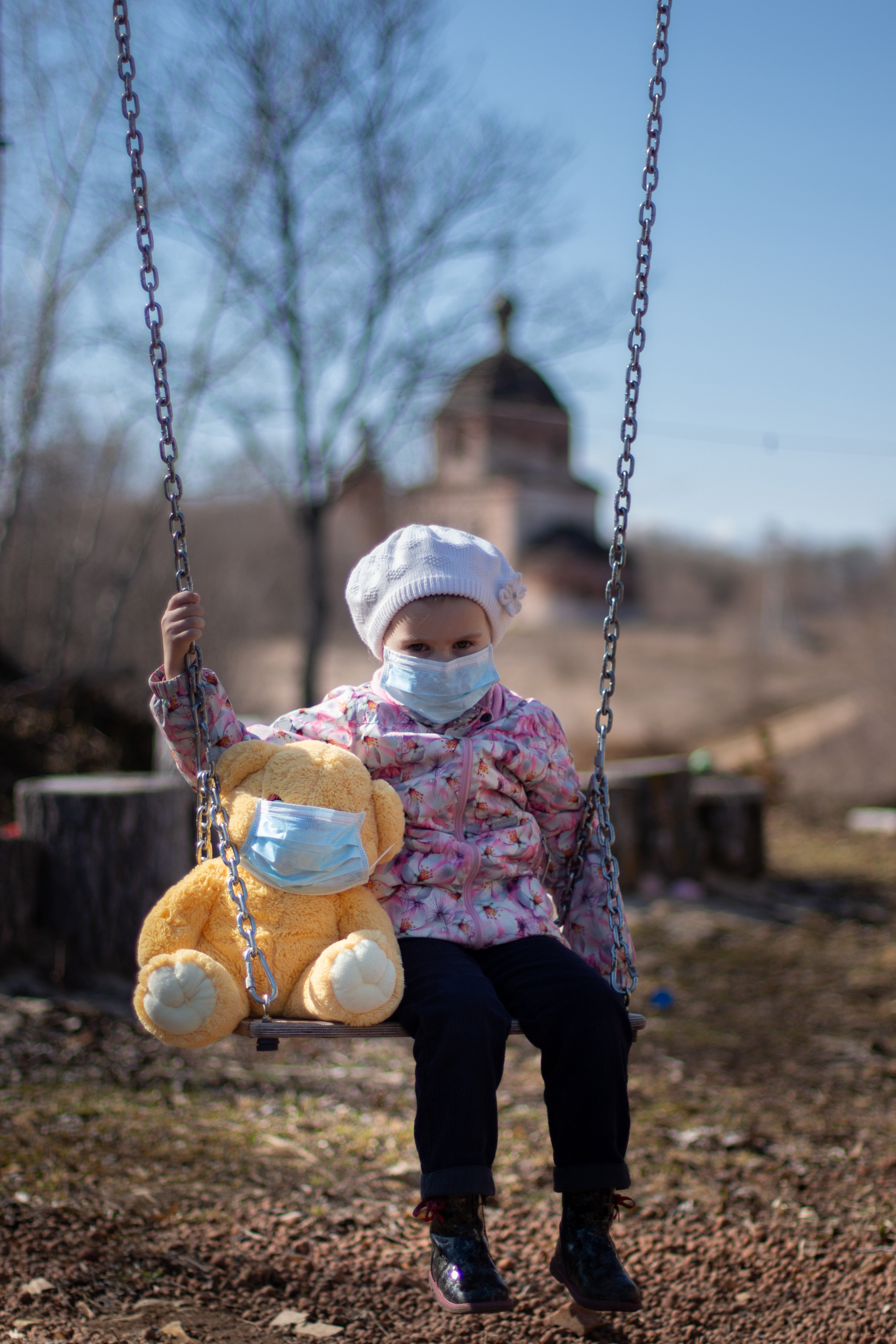 A child in time for a coronavirus pandemic